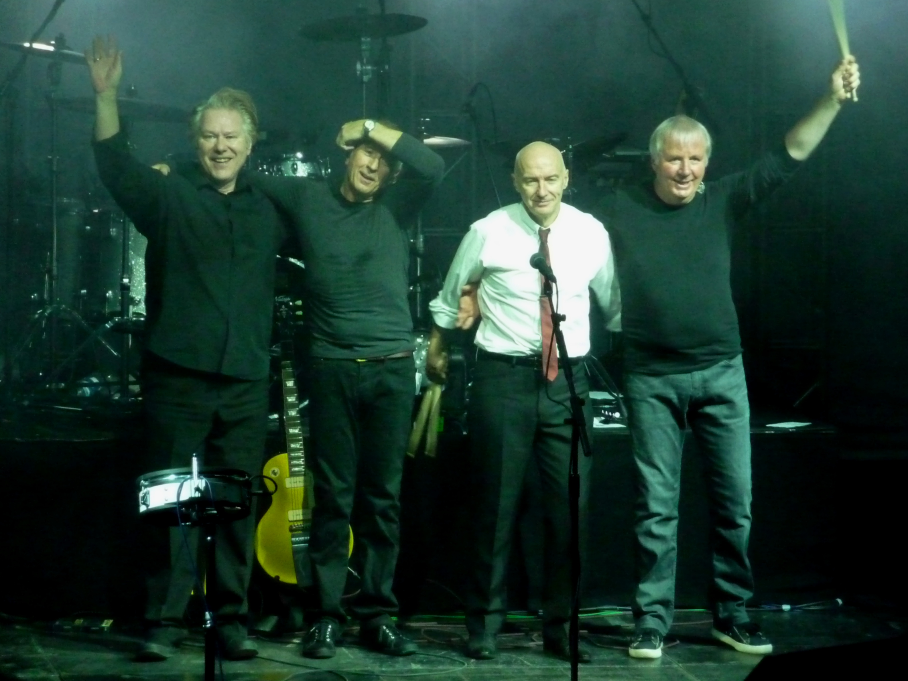 Ultravox playing "Brilliant" tour concert at C-Halle (Columbiahalle), Berlin, Germany